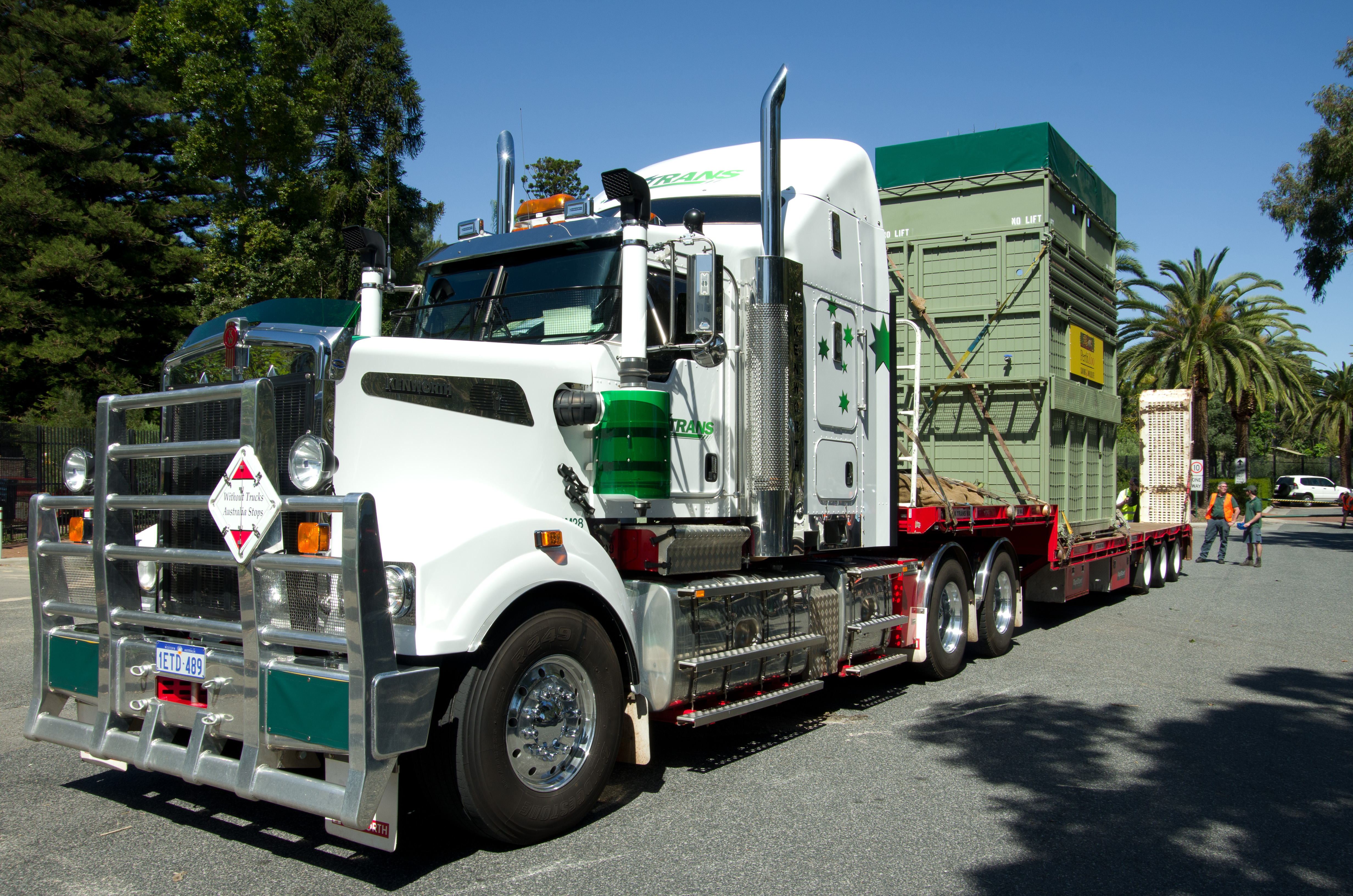 Asali commences her return from Perth Zoo breading program back to Monarto Zoo in South Australia a journey of some 2200km